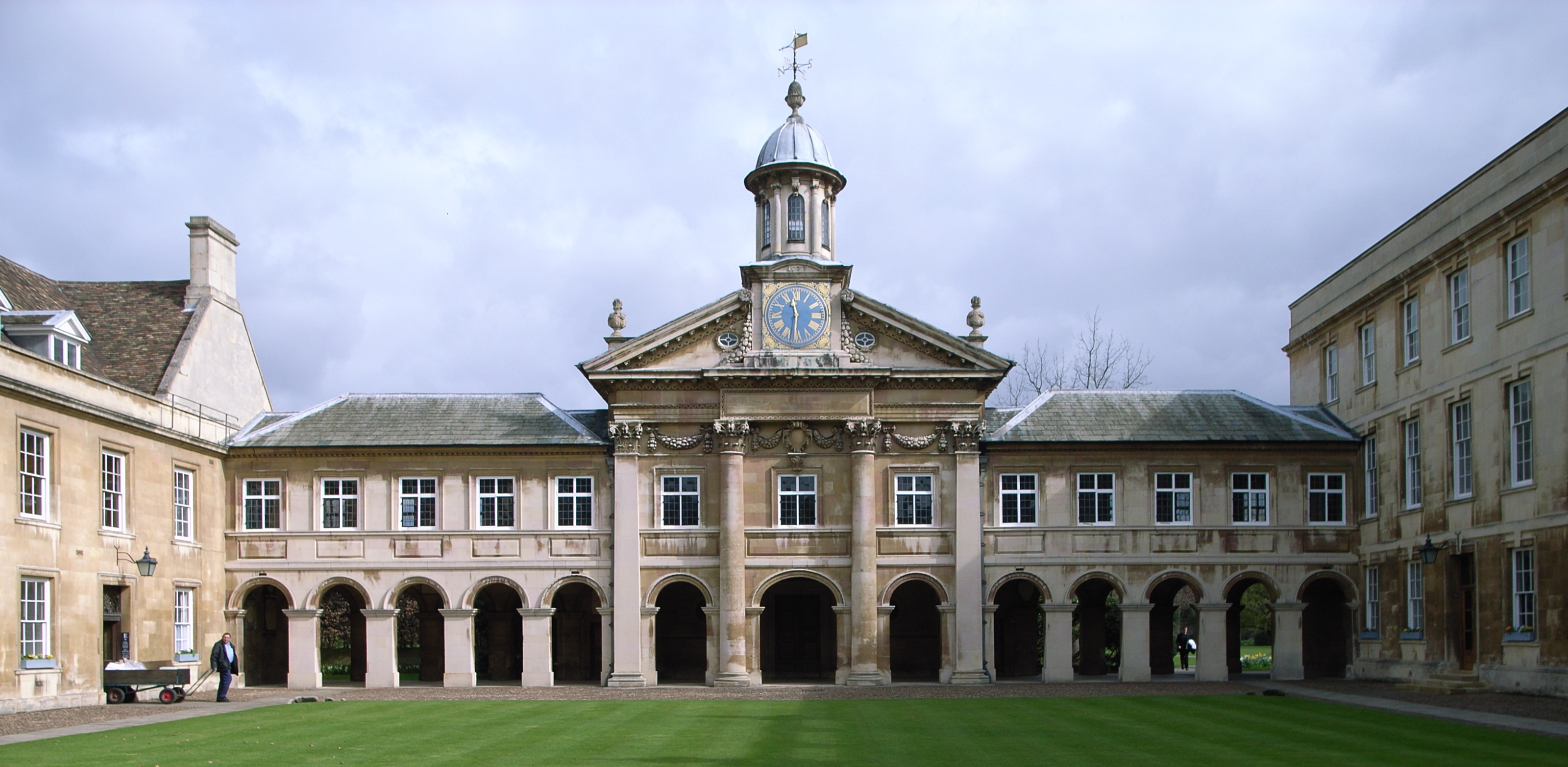 Front Court of Emmanuel College, Cambridge, with the Chapel designed in 1663 by Christopher Wren